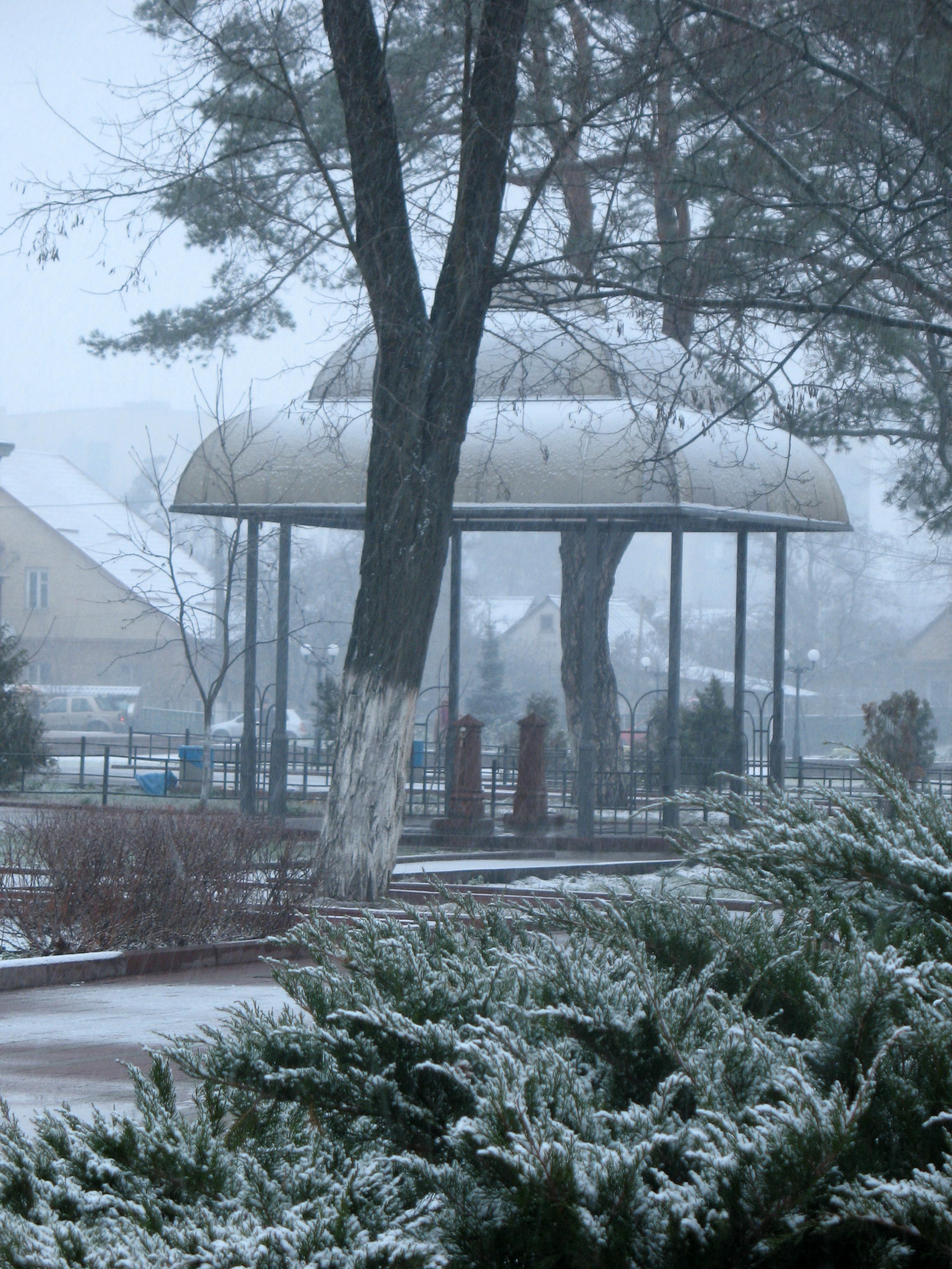 Ukraine Irpen 2010. First snow. st. Shevchenko. Atrezianskaya well